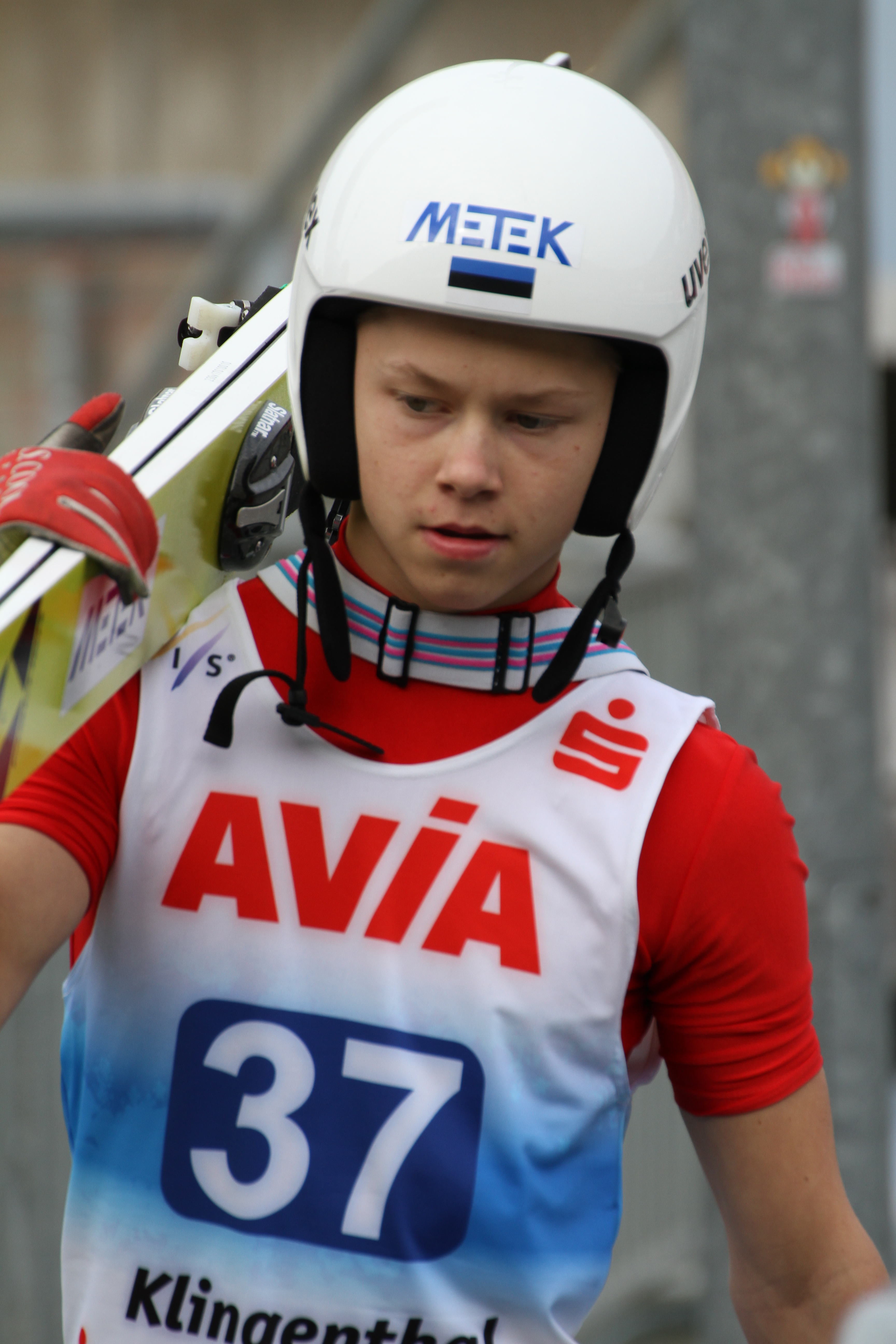 FIS Ski Jumping Summer Continental Cup Klingenthal 2017 Artti Aigro